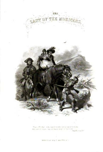 Title page of The Last of the Mohicans, edited by W.A. Townsend in 1859